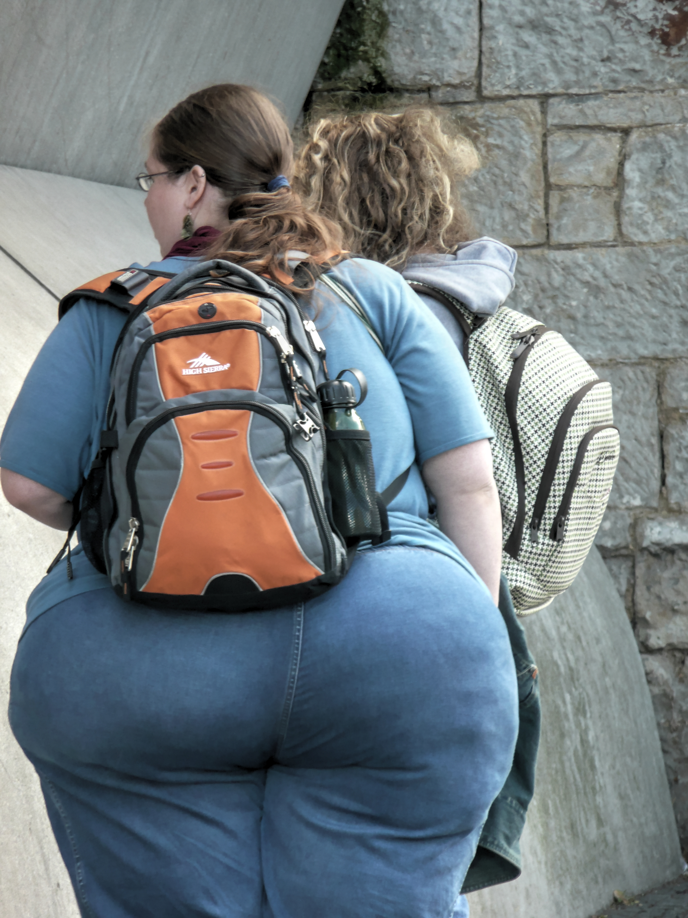 Photographs from Edinburgh, Scotland